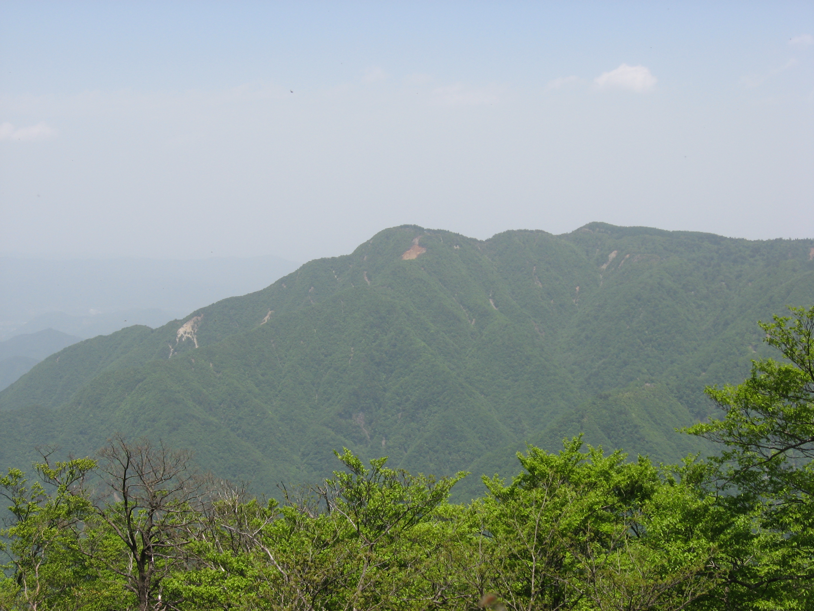 Mt.Sodehira (Sodehira-yama) as seen from Mt.Kumazasanomine, Mts.Tanzawa, Honshu, Japan.